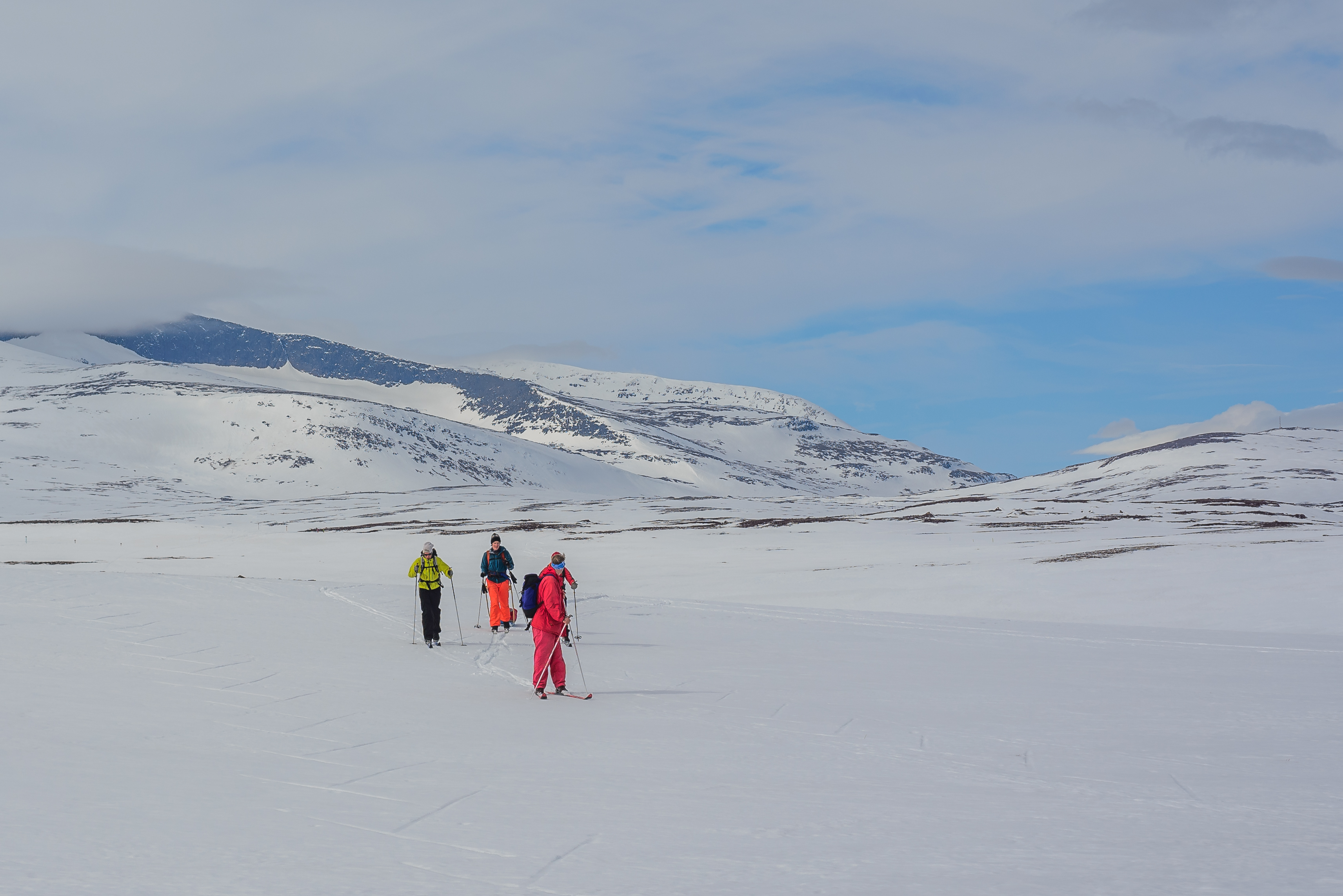 Cross-country skiers in front of mount Helags.